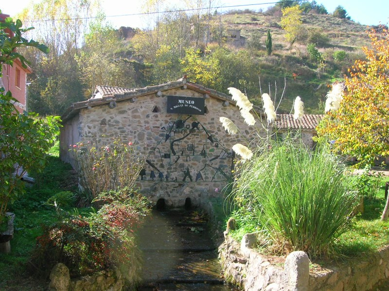 Belorado.